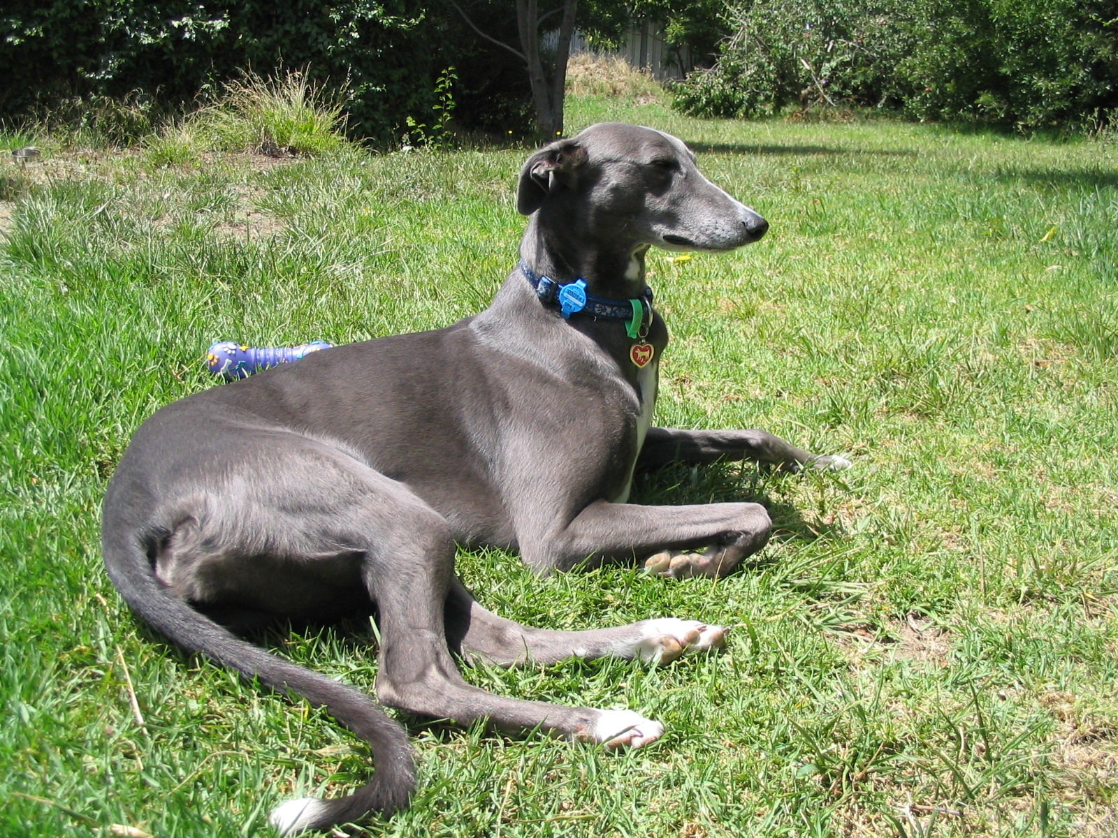 A blue female greyhound named Tillee relaxing. Tillee was an Australian retired racing greyhound.